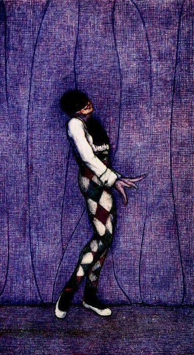 Image from scanned copy of "The Art of Nijinsky" by Geoffrey Arundel Whitworth, published in 1913 and in the Public Domain. Image has been cropped slightly